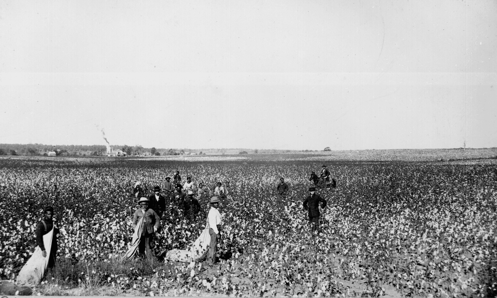 Oklahoma Cotton Field." Overseer and Negro cottonpickers, ca. 1897--98.